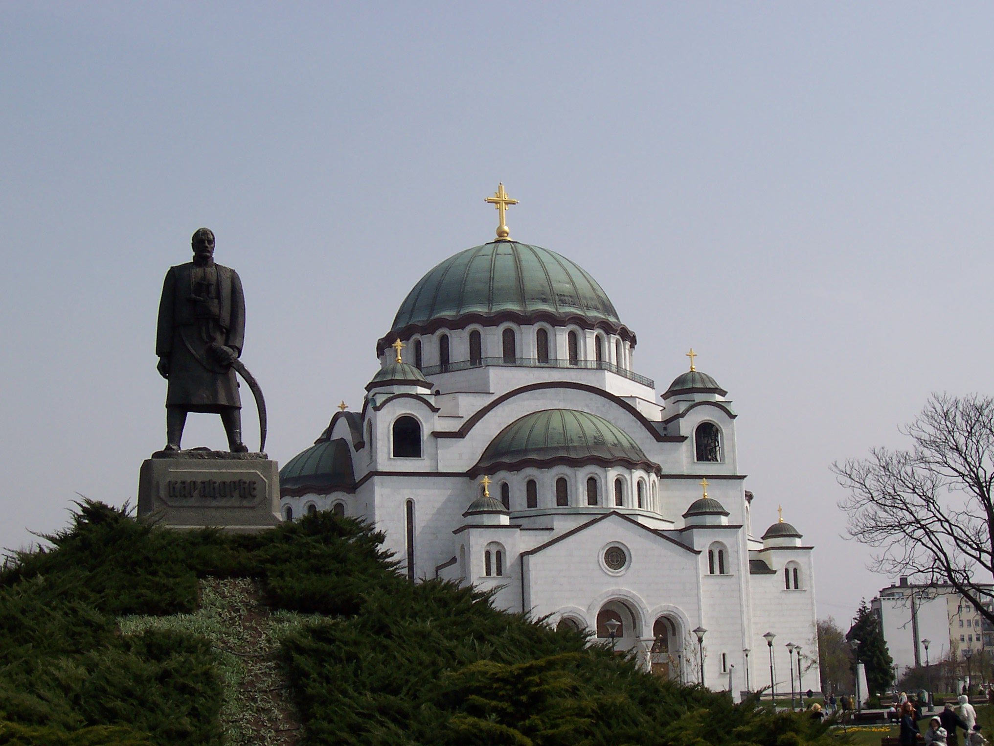 Temple of Saint Sava in the background of the monument to Karadjordje.